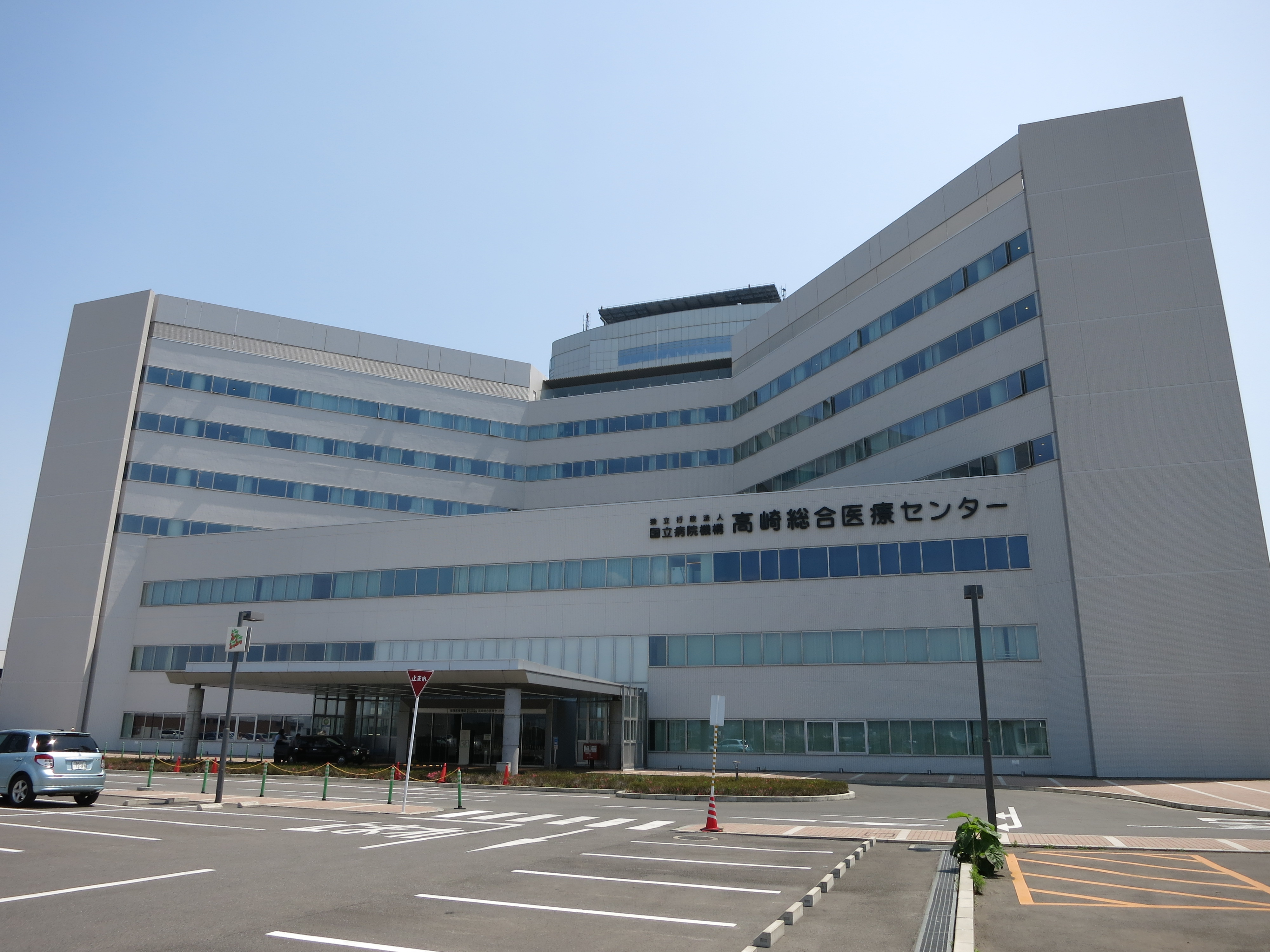 National Hospital Organization Takasaki General Medical Center